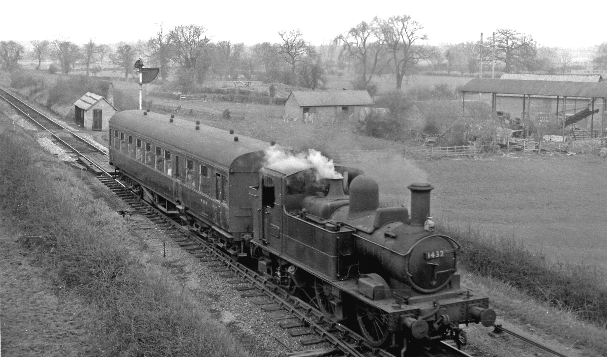 Wrexham - Ellesmere auto-train at Bangor-on-Dee. View northward, towards Wrexham: ex-Cambrian Rly. Wrexham (Central) - Ellesmere branch, closed 10/9/62. The locomotive is Collett '4800' class auto-fitted 0-4-2T No. 1432 (built 7/34 as No. 4832, renumbered 10/46, withdrawn 7/63).